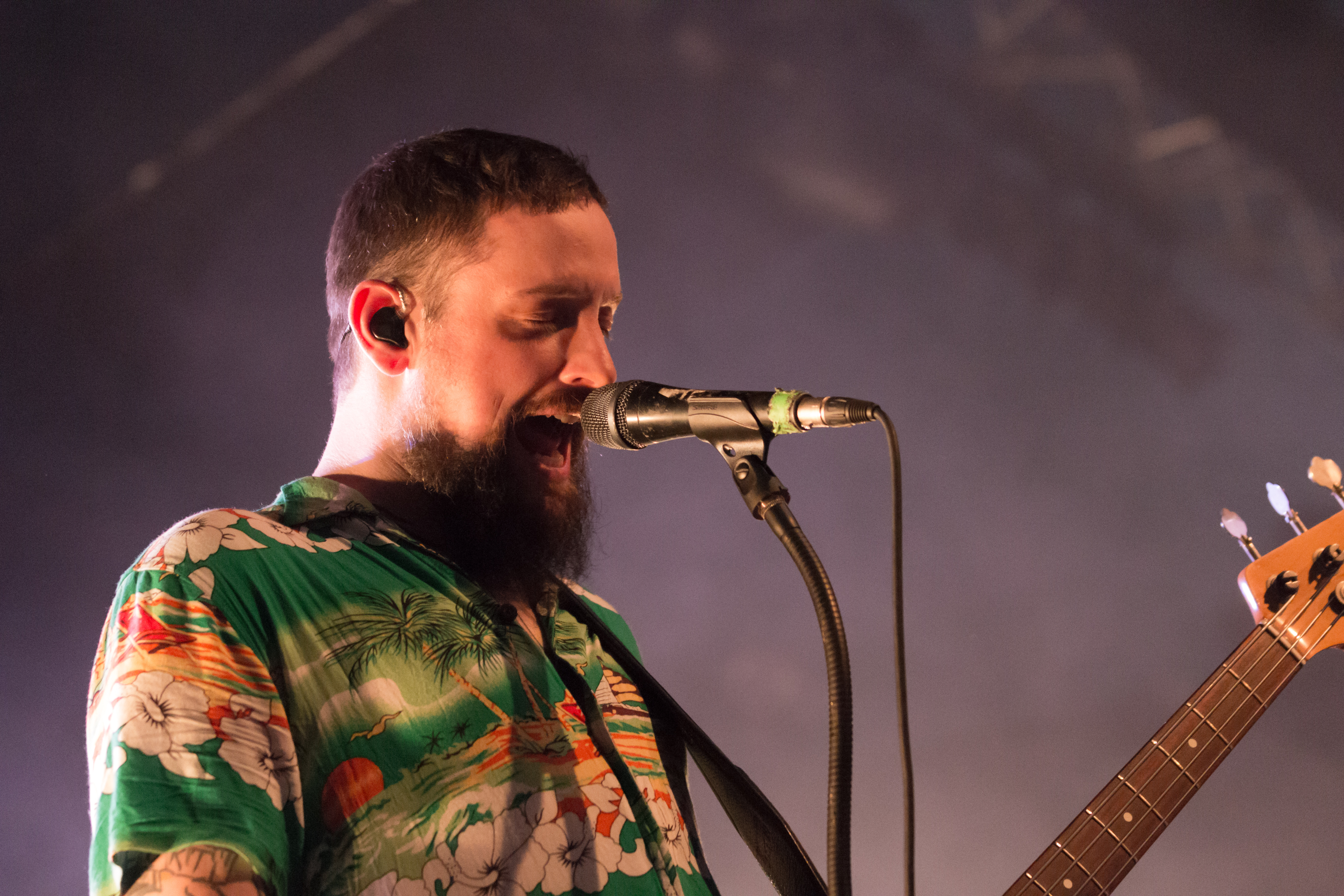 Tobert Knopp, bass guitarist of Turbostaat, performing at the ZMF Freiburg on July 3rd, 2015.